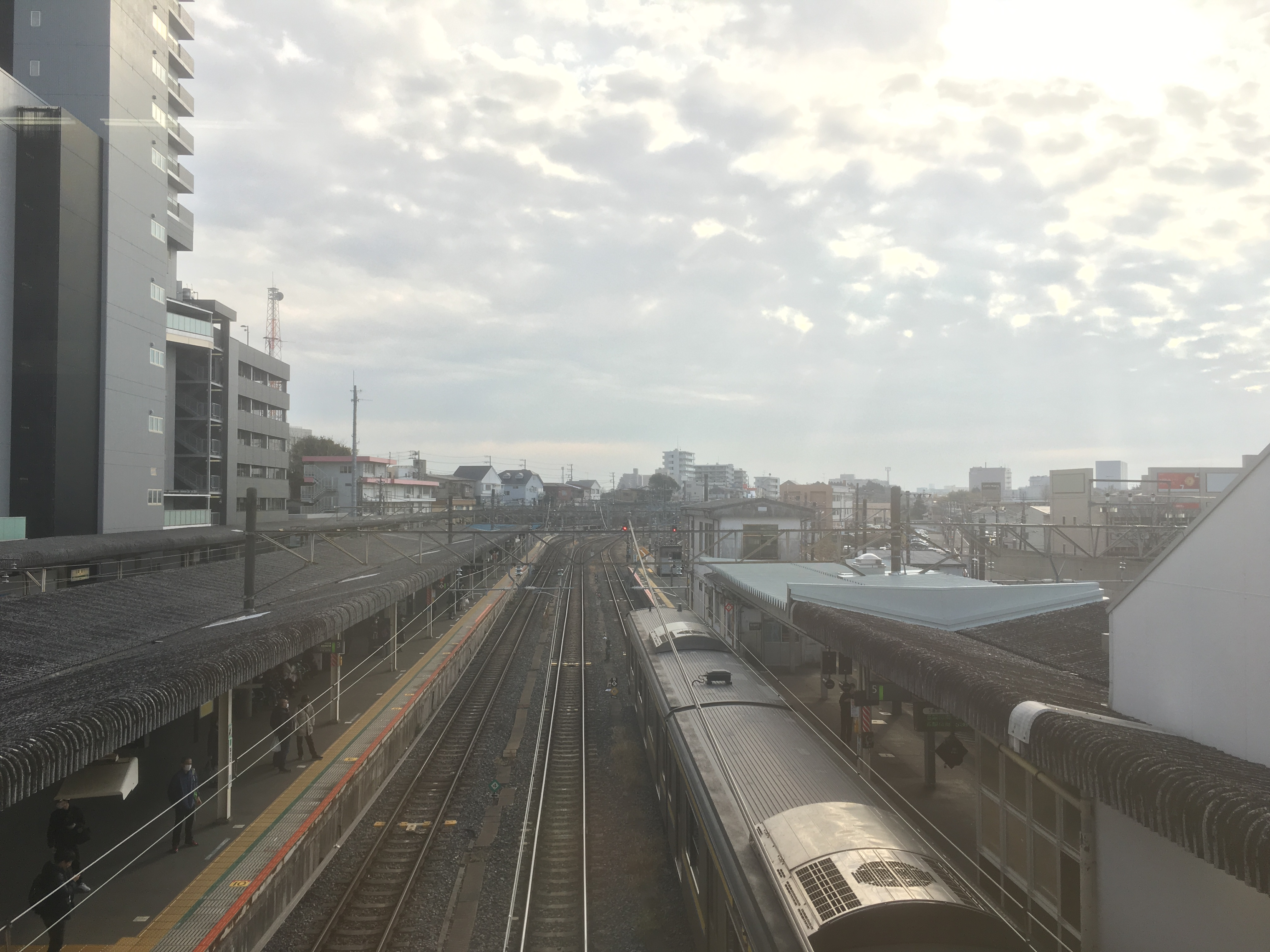 成田駅のホーム (Narita Station platforms)